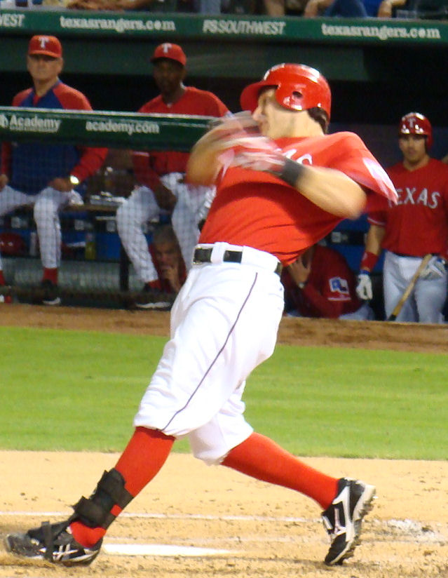 Ian Kinsler